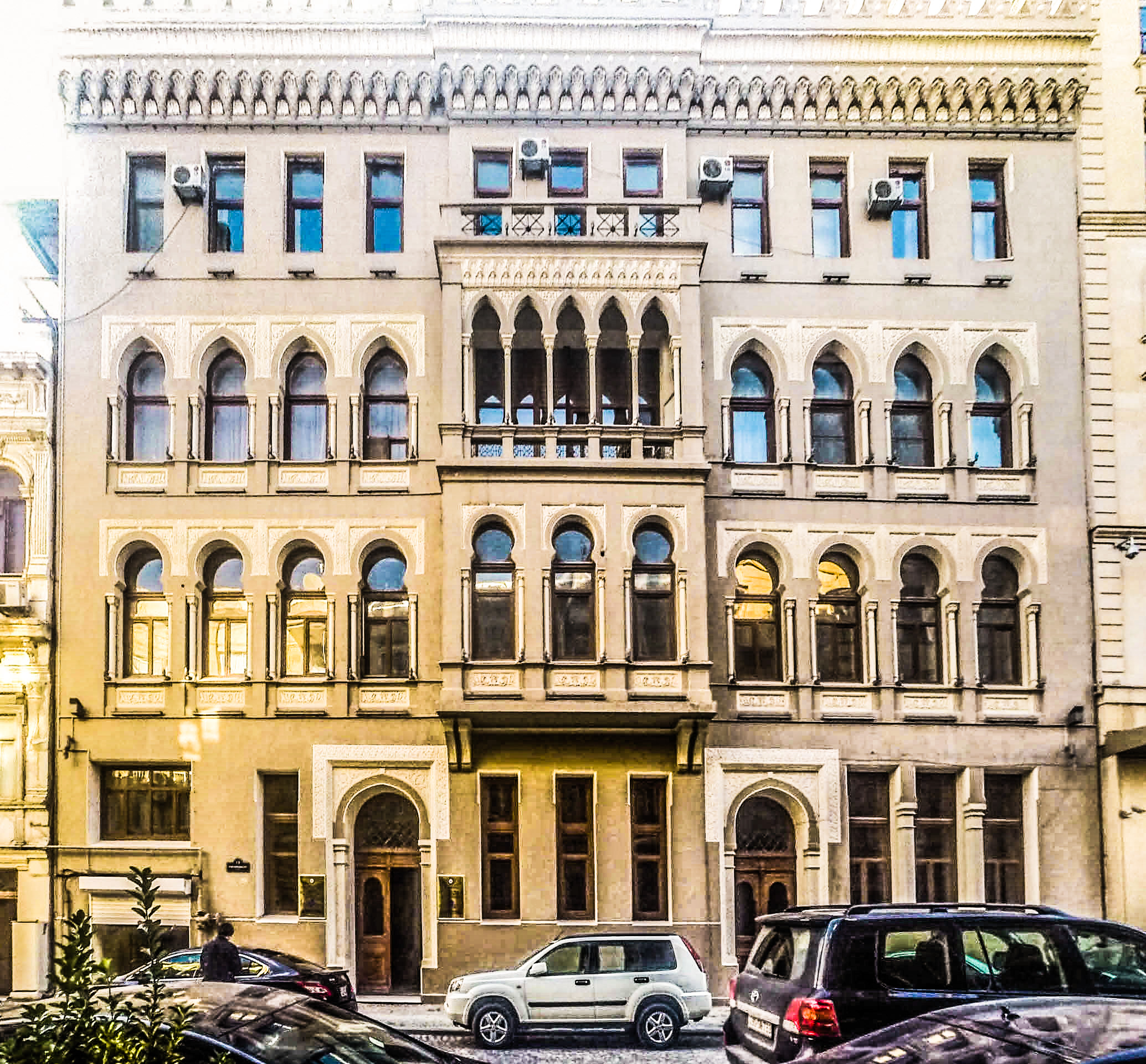 Building on Yusif Mammadaliyev Street 11 main facade